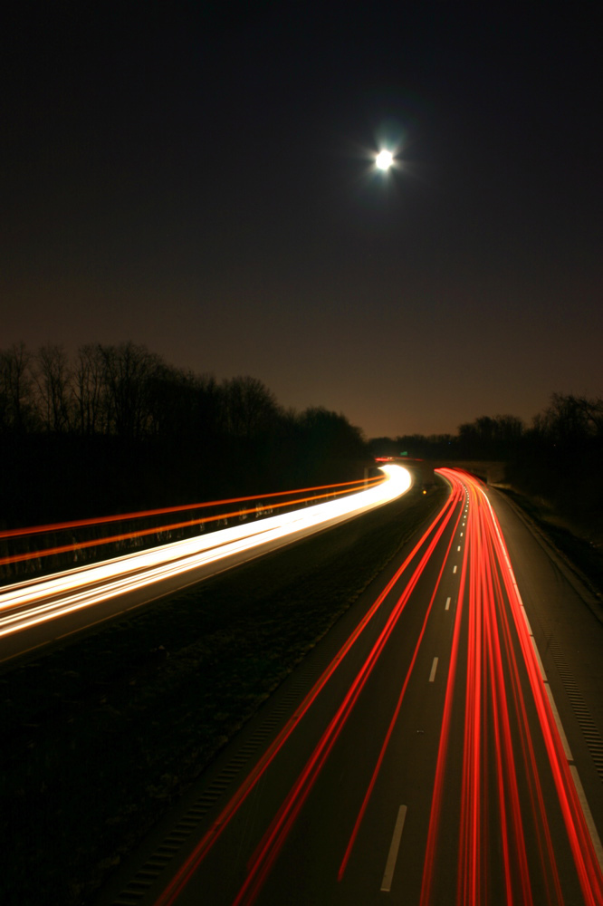 Streaking Lights on I-64. Long Exposure taken from the horse/bike bridge at Seneca Park in Louisville KY.